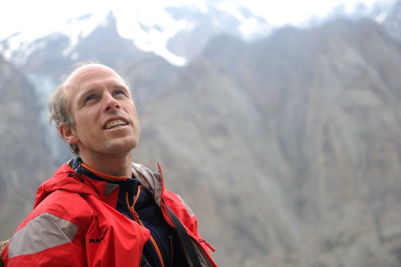 Robert Steiner, German writer and climber